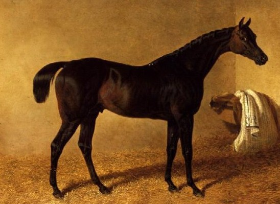 Painting 'Dr Syntax', a dark bay racehorse in a loose box, by John Frederick Herring Sr (1795–1865). Artist dead for 147 years.